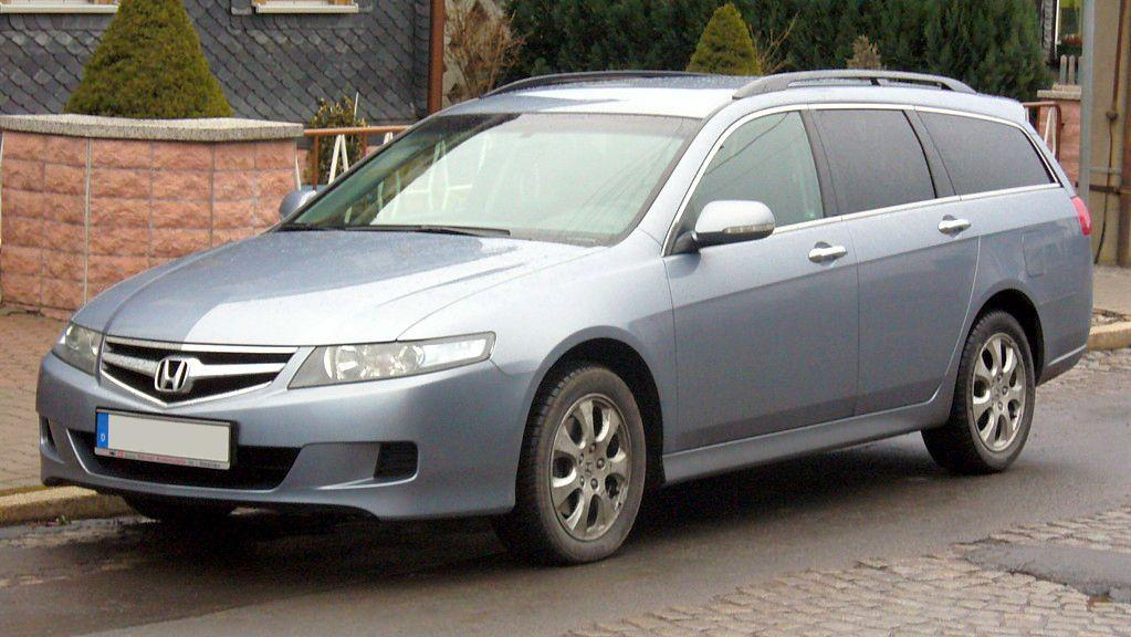 Honda Accord Tourer